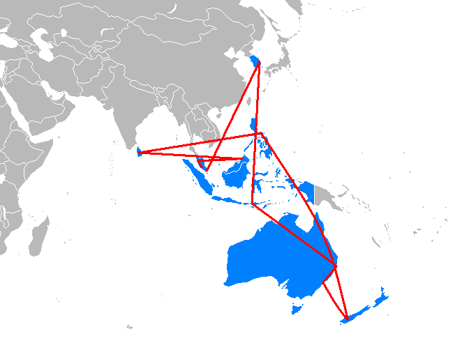 This is the map of The Amazing Race Asia 4.